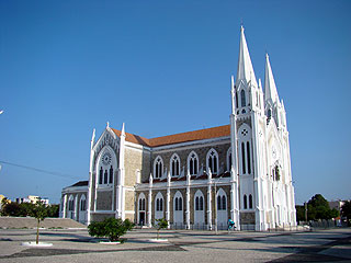 my foto